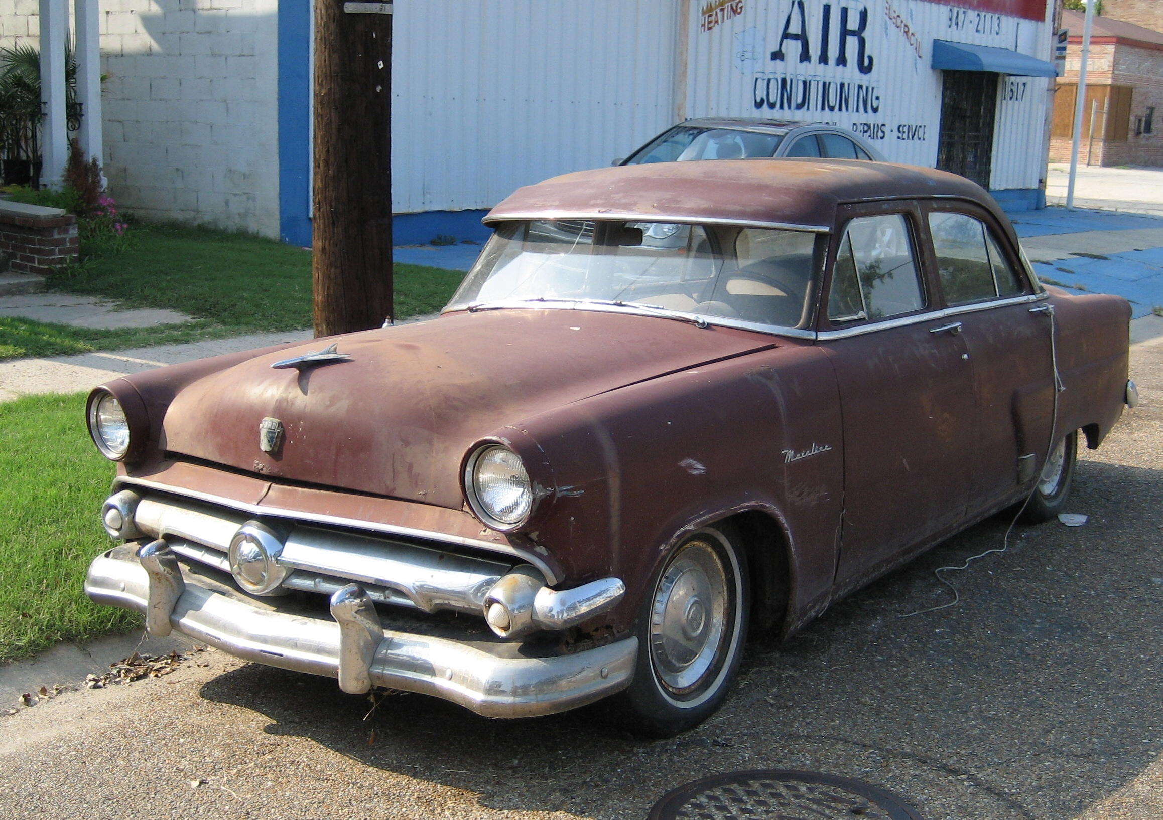 1954 Ford Mainline seen in Bayou St. John neighborhood of New Orleans.